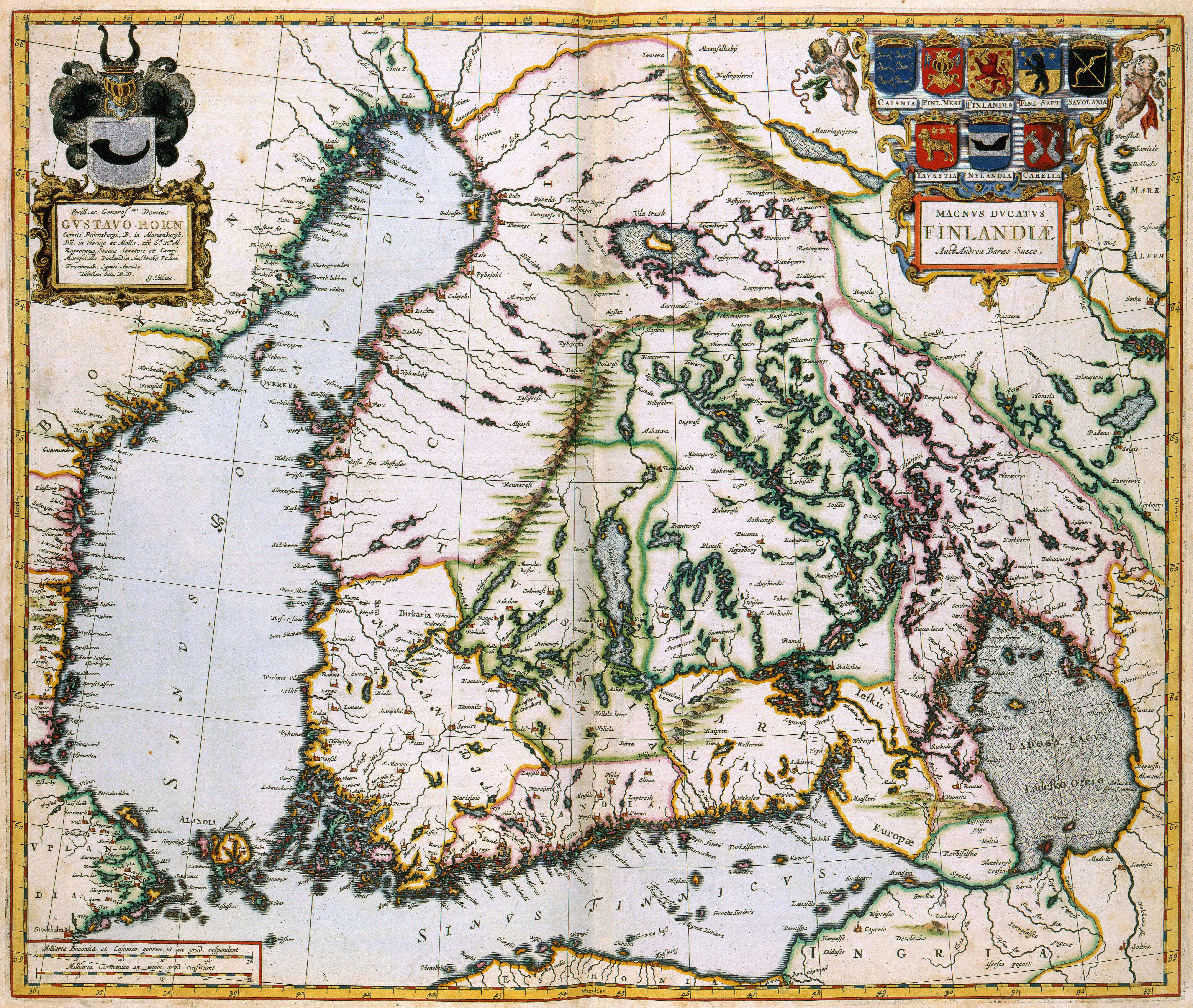 This very well received map - the first printed survey map of Finland - was composed by the Swedish cartographer Anders Bureus (1571-1661). The map was published in 1662 in the second volume of Joan Blaeus Atlas Maior. At the time of the publication Finland was a grand duchy of the Swedish Empire. The map was dedicated by Blaeu to the Swedish nobleman Gustav Horn (1592-1657), governor of the south-eastern territories Kexholm en Ingermanland.